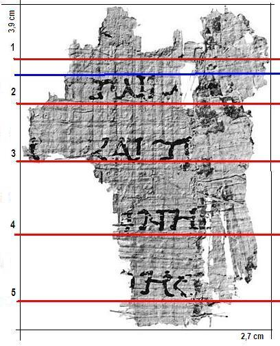 Measures of 7Q5 Fragment of 7Q Qumran